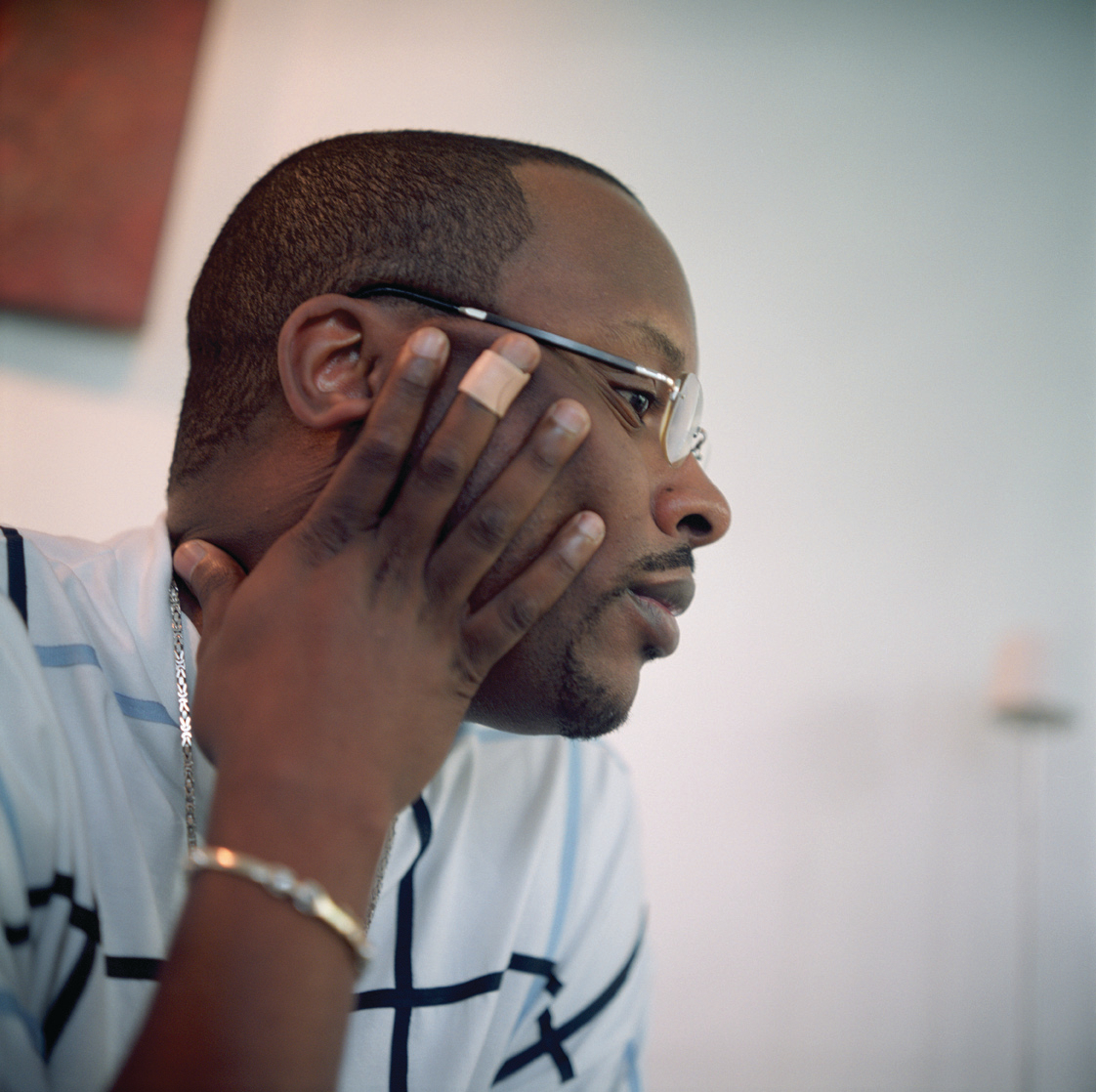 DJ Jazzy Jeff in Hamburg, Germany in March 2002.